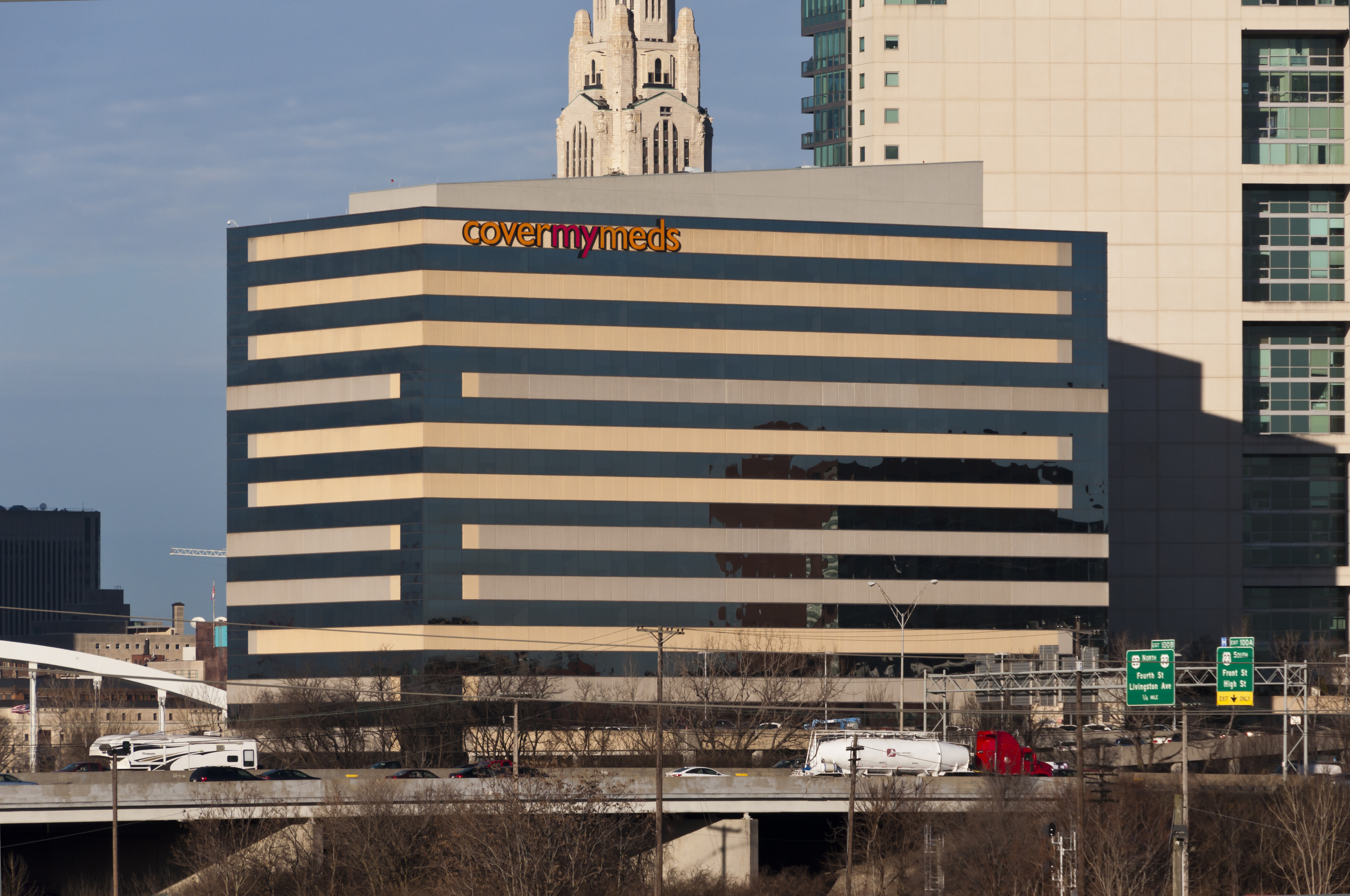 The 2 Miranova Place building in Columbus, Ohio. It is the current headquarters for CoverMyMeds a healthcare software company. Interstate 70 in Ohio and Interstate 71 are in the foreground. This photo was taken at the end of December.